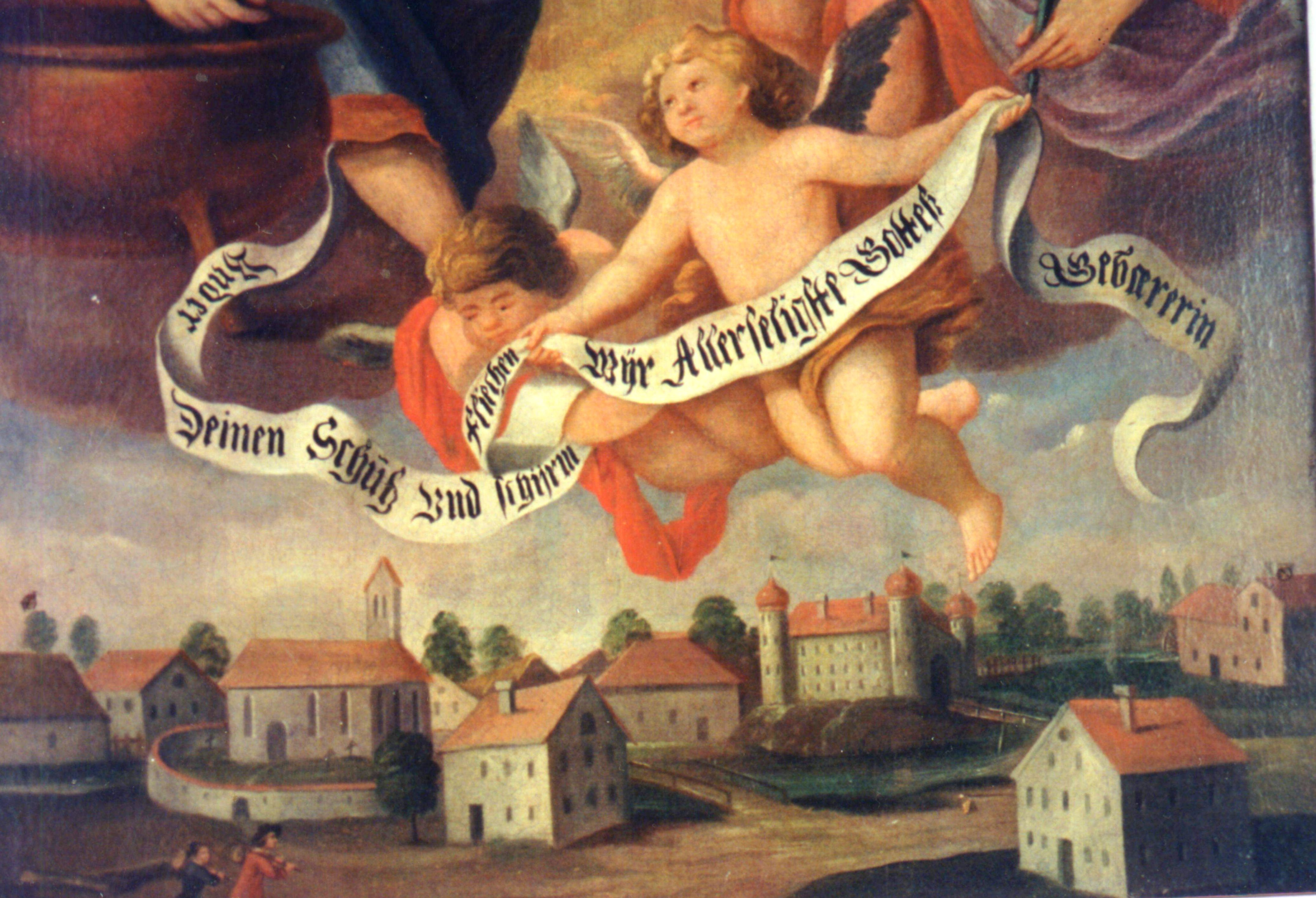 The old church and castle of Weichering as depicted on a former altarpiece from the parish church (kept today in St Anthony's Chapel).